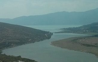 View of Busko Jezero from the top of the road surrounding it.